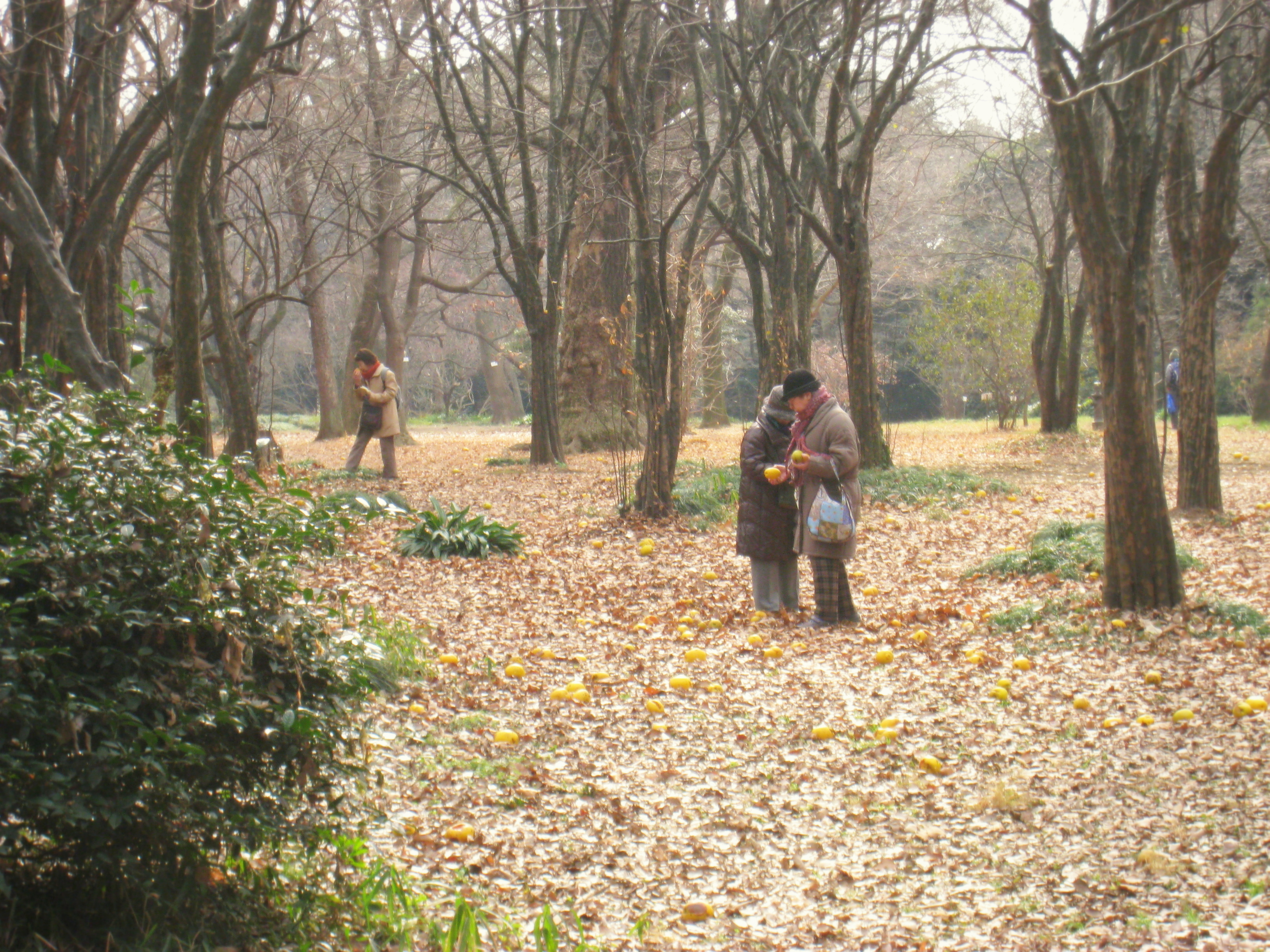 Koishikawa Botanical Gardens, Tokyo, Japan - gathering fallen fruit.